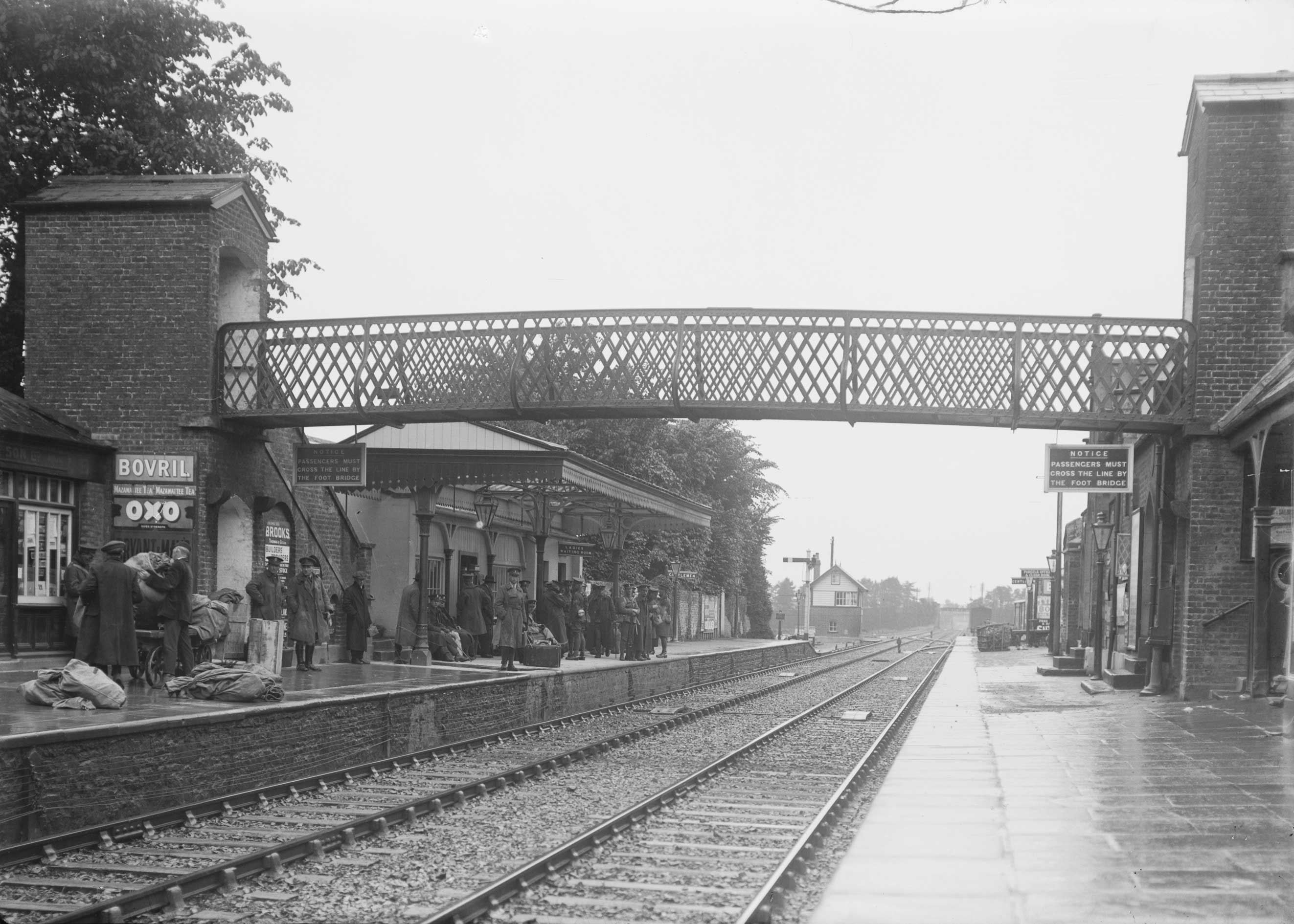 Soldiers waiting for a train at Newbridge Railway Station in Co. Kildare. They may have been members of the Cavalry Regiment stationed at nearby Newbridge (aka Kilbride?) Barracks... Thanks to Kevin j Monahan for all of this information on Newbridge Barracks and its contemporary traces: "Newbridge barracks was on the main street, after Independence the new Irish Free State army chose not to retain it as there were barracks in Kildare town and Naas plus the Curragh. As it was government land it had the library, a school, the post office, Bord na Mona's headquarters and a garda station, Saint Conleths Park - the GAA county grounds are also there. Newbridge was known from having a one sided main street as there were only shops on one side. The barracks are almost gone now, but there are still some relics, Newbridge town hall on the main street was the old garrison church, the barracks water tower is on the end of Cutlery road (I used to climb it when I was a kid). One of the barrack gates is still there across from Ryston and I believe there is a building in Bord na Mona that was part of the barracks." Date: Circa 1910 NLI Ref.: EAS_2532